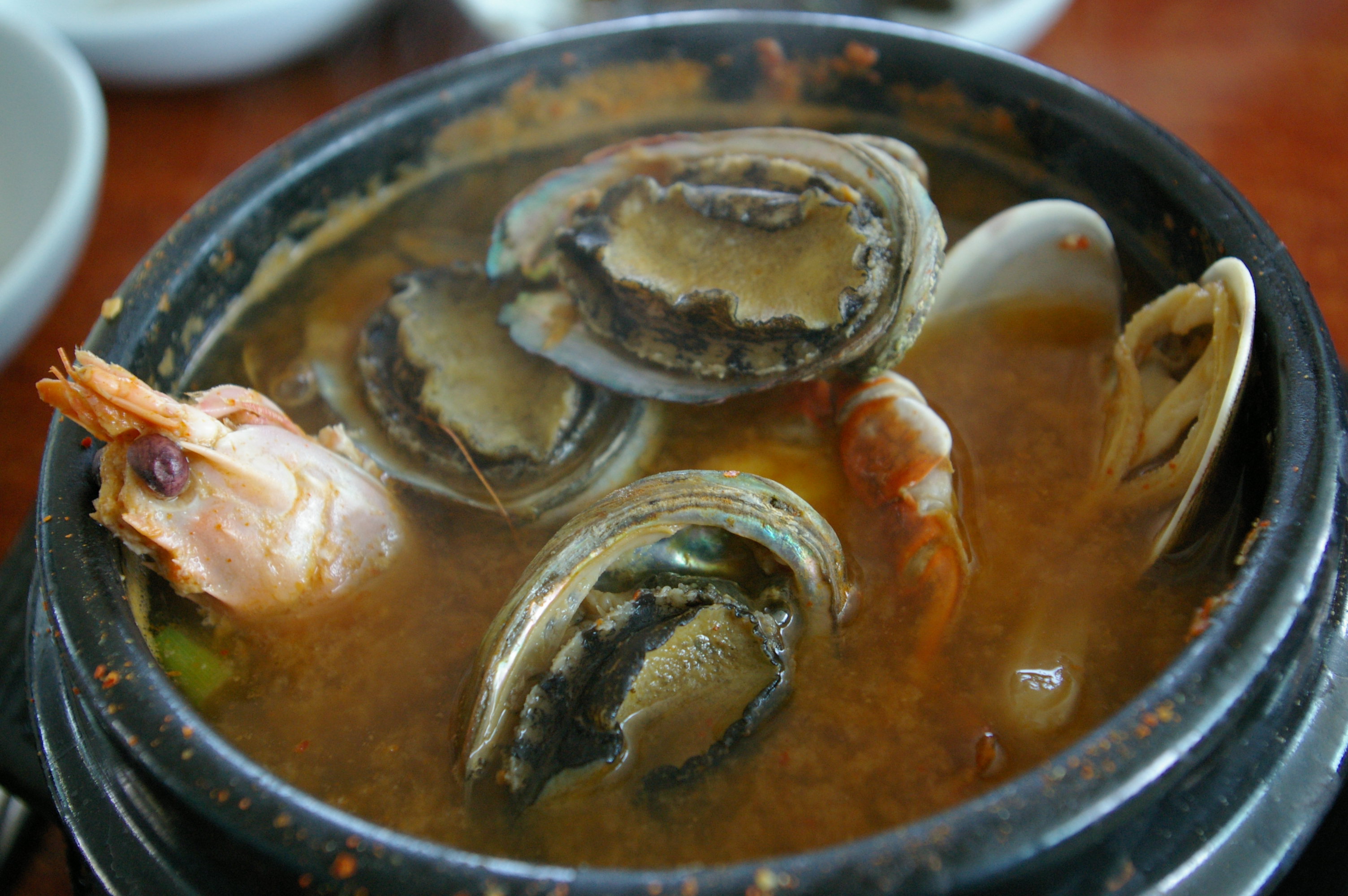 Obunjagi ttukbaegi, which is a local specialty of Jeju Island, South Korea. '